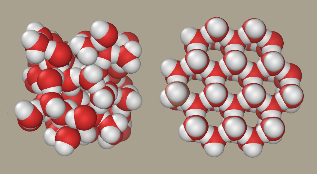 Liquid water and ice. Picture created by Ascalaph Designer program.